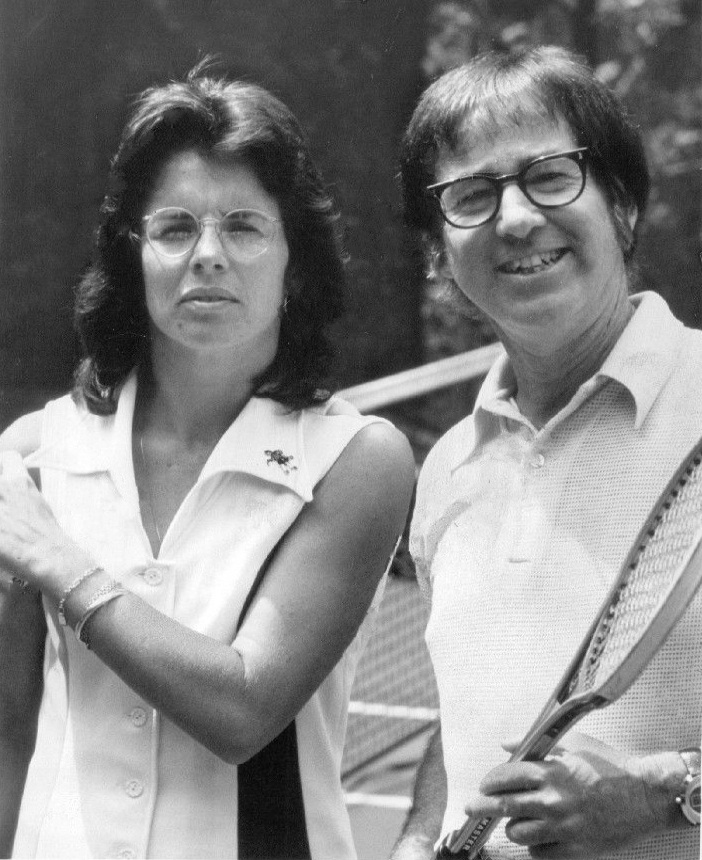 1973 American Tennis Champions Billy Jean King & Bobby Riggs Press Photo